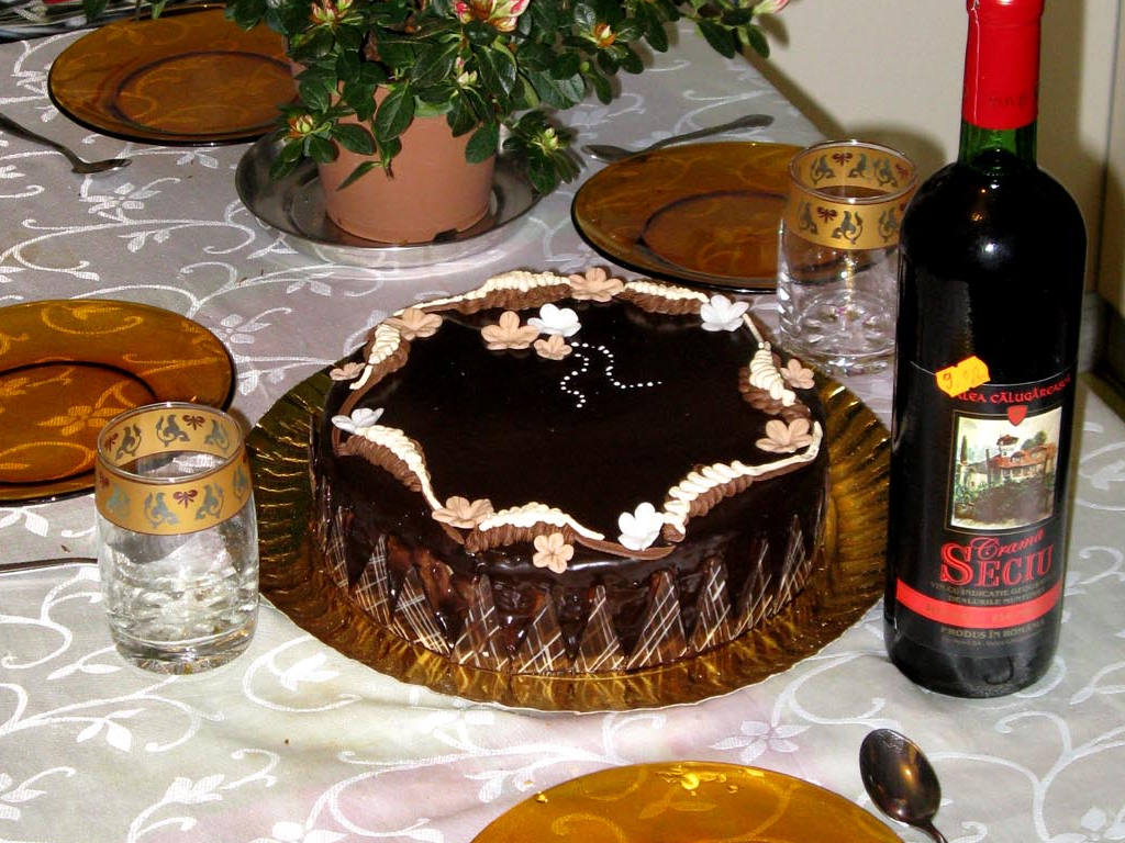 Joffre cake and a bottle of wine